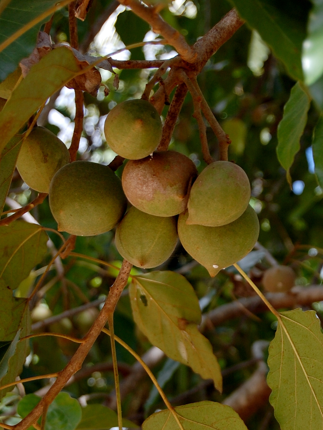 Candlenut (Aleurites moluccana) fruit. Ayotupas, West Timor, Indonesia